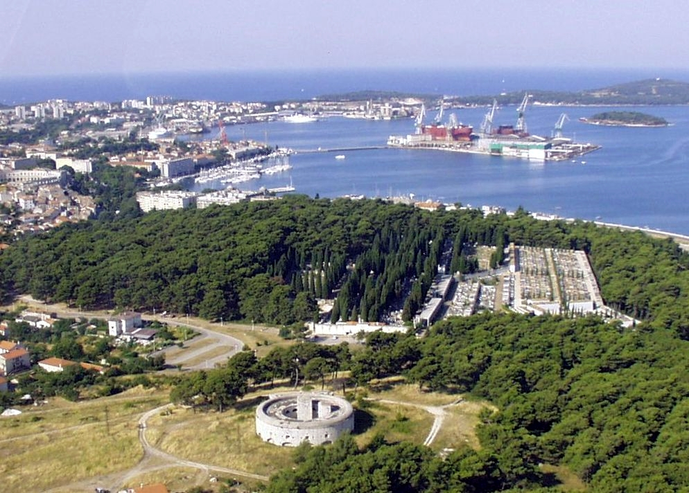 Pula, view from the air